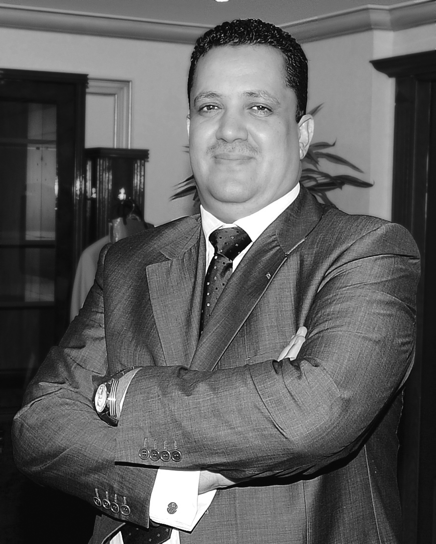 CEO SAK HOLDING GROUP